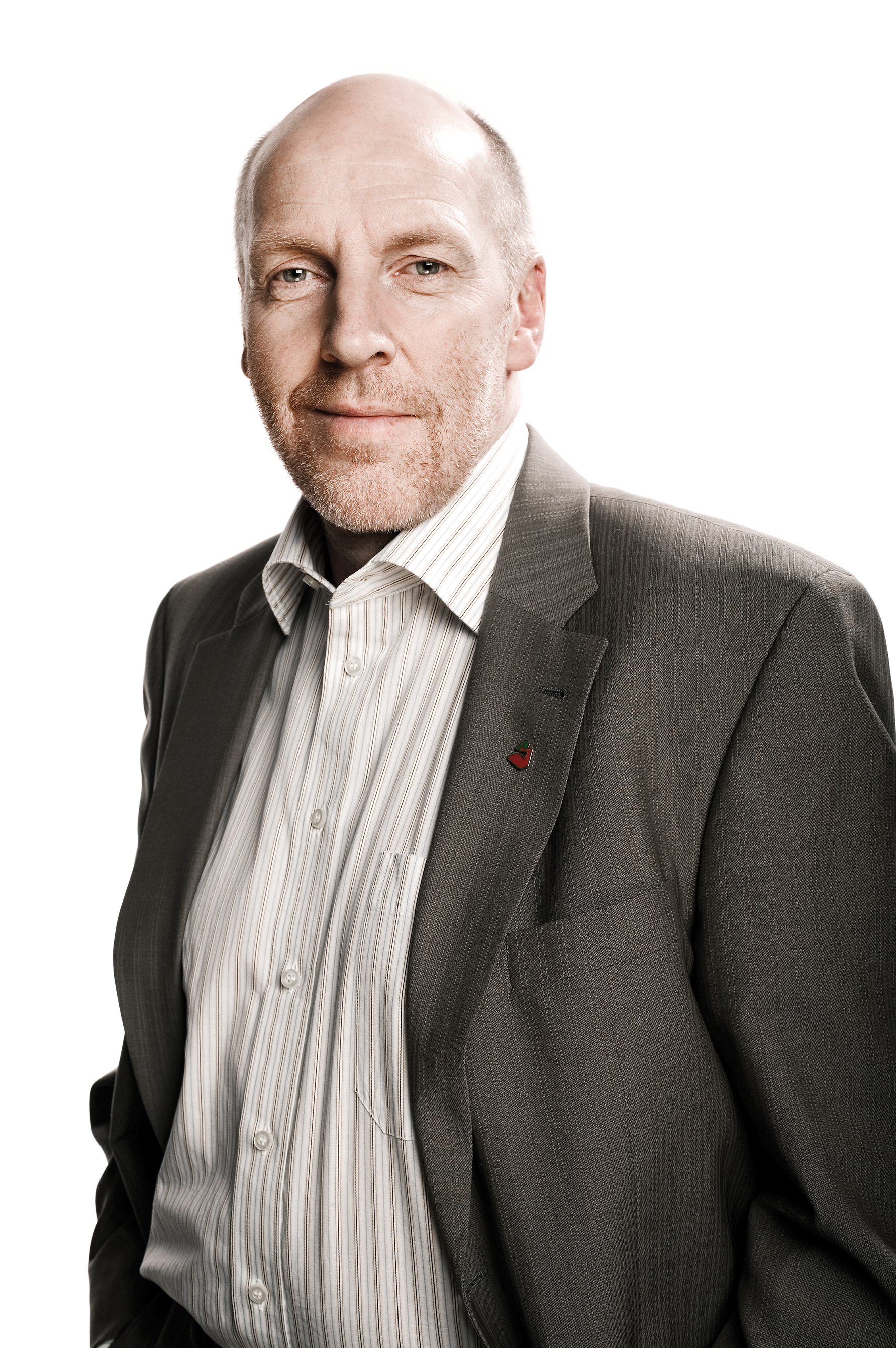 Steingrímur J. Sigfússon, chairman of the Icelandic Left-Green movement